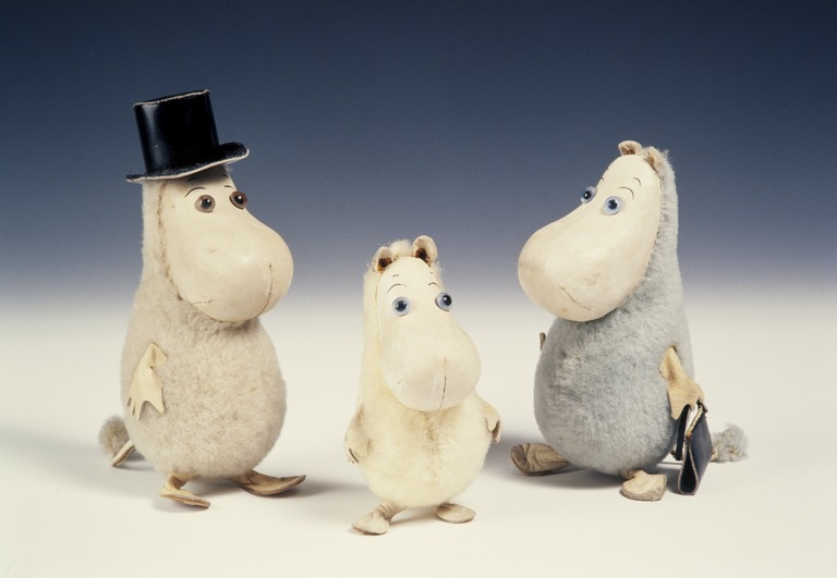 Moomin toys from 50s. They were represented in Copenhagen as popular Helsinki souvenir.